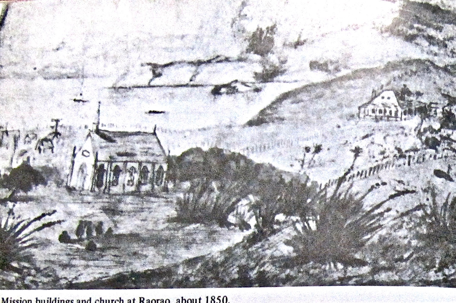 built 1844 at Raoraokauere